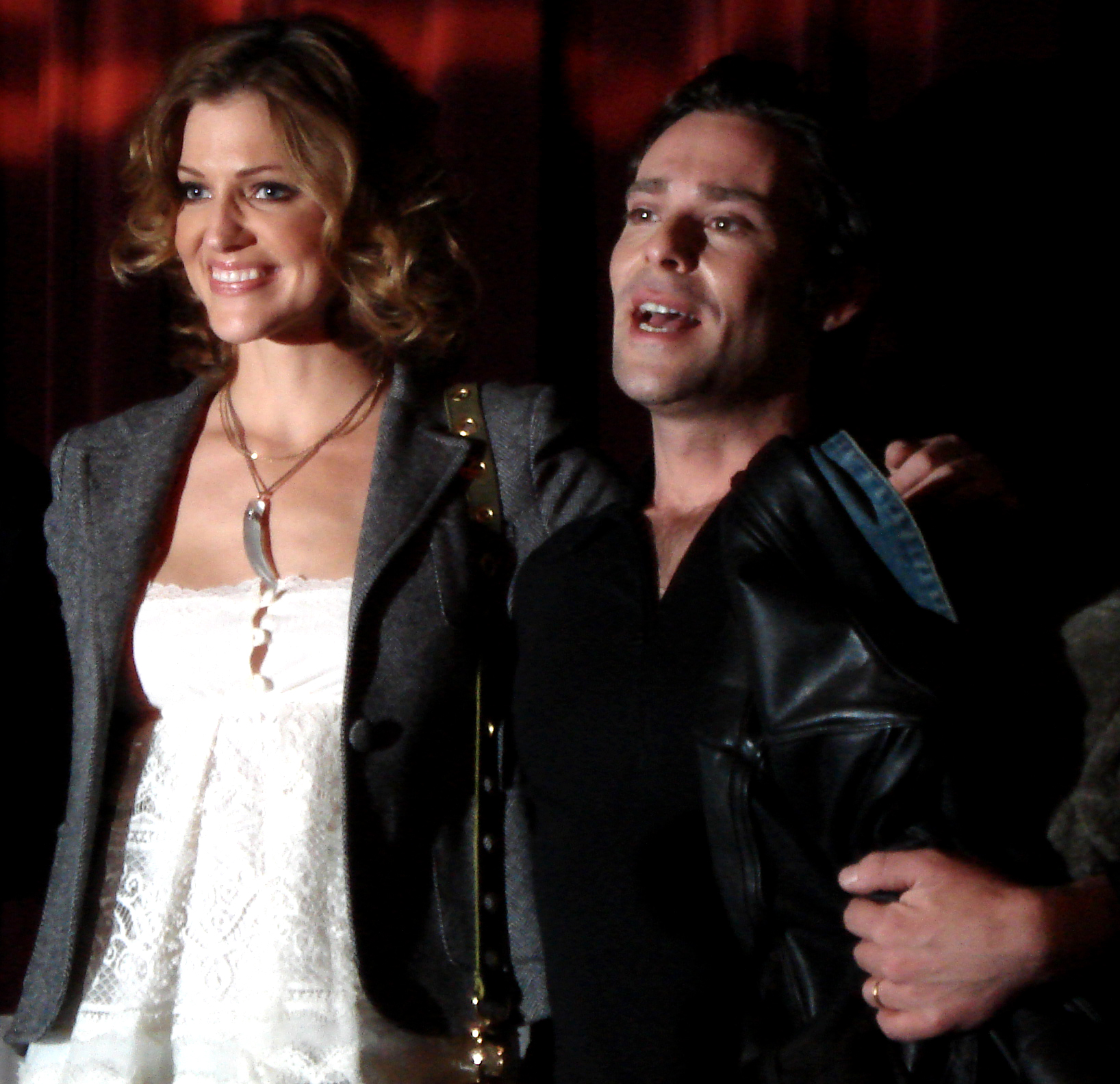 Actors and stars of Battlestar Galactica, Tricia Helfer and James Callis at the 2007 New York Comic-Con. Copyright 2007 Jeffrey O. Gustafson - released under the GFDL and CC-BY-SA-2.0.